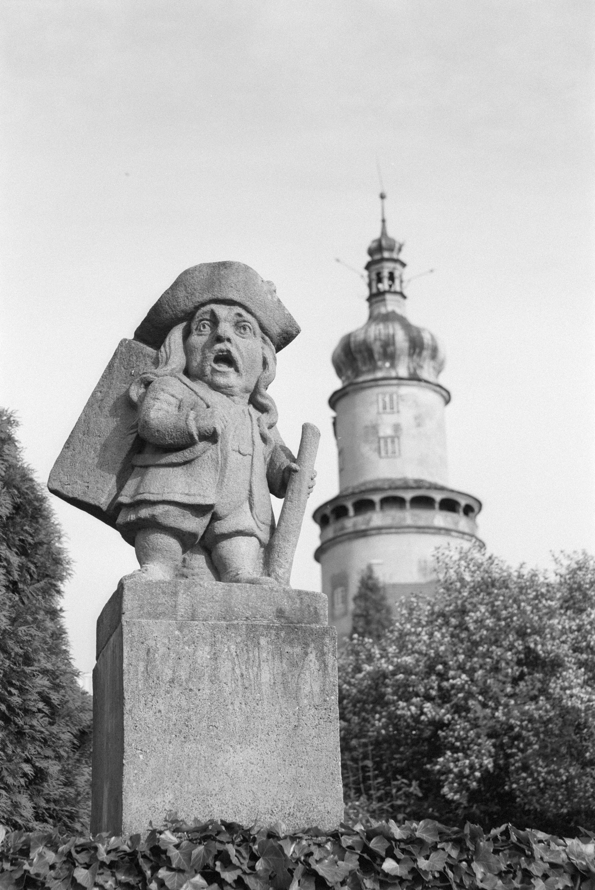 Castle Nové Město nad Metují in Czech Republic, inside the garden, sculpture by Matthias Bernhard Braun picture taken by me in spring 2006 (original black+white)